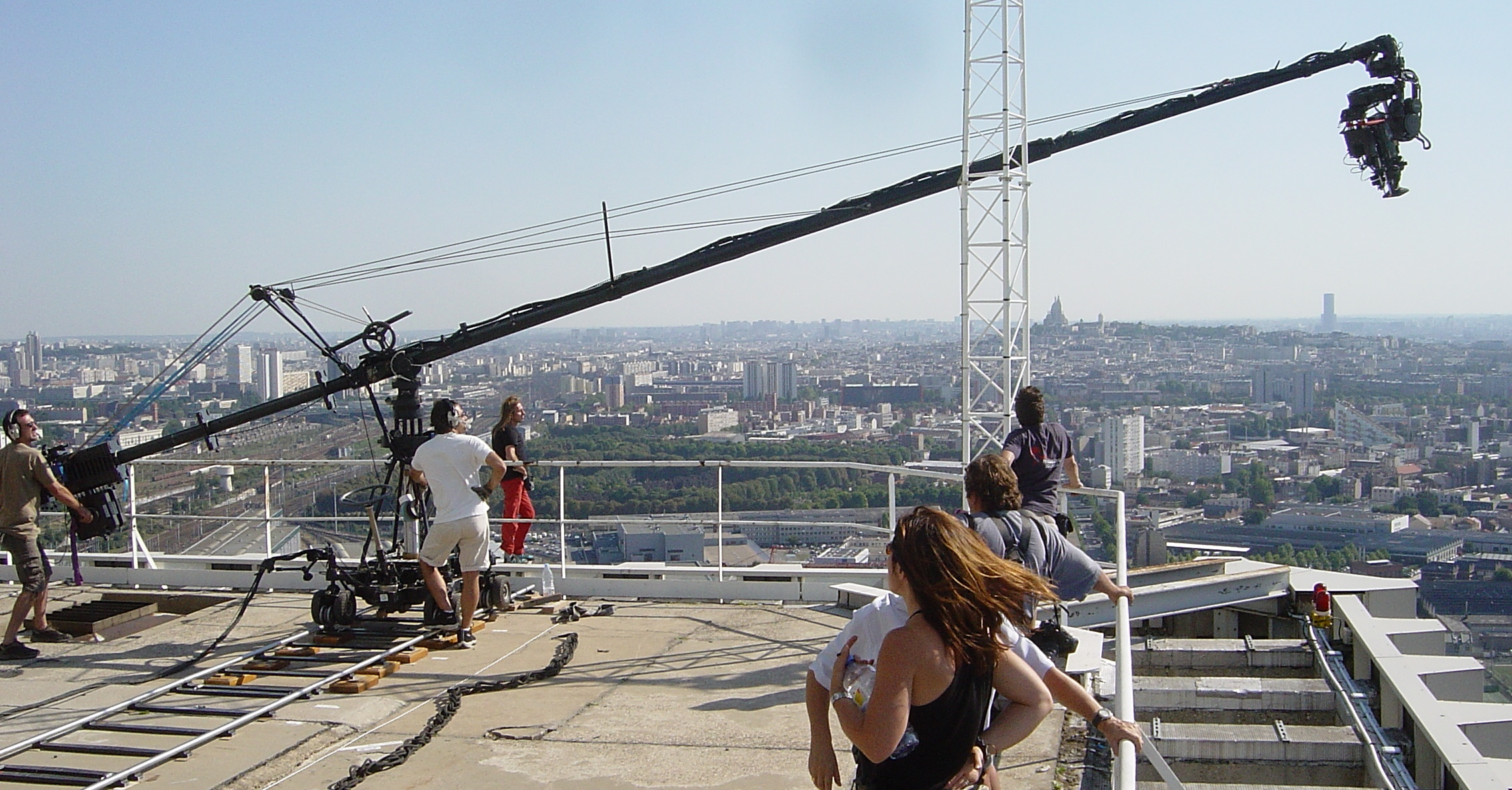 A Louma crane